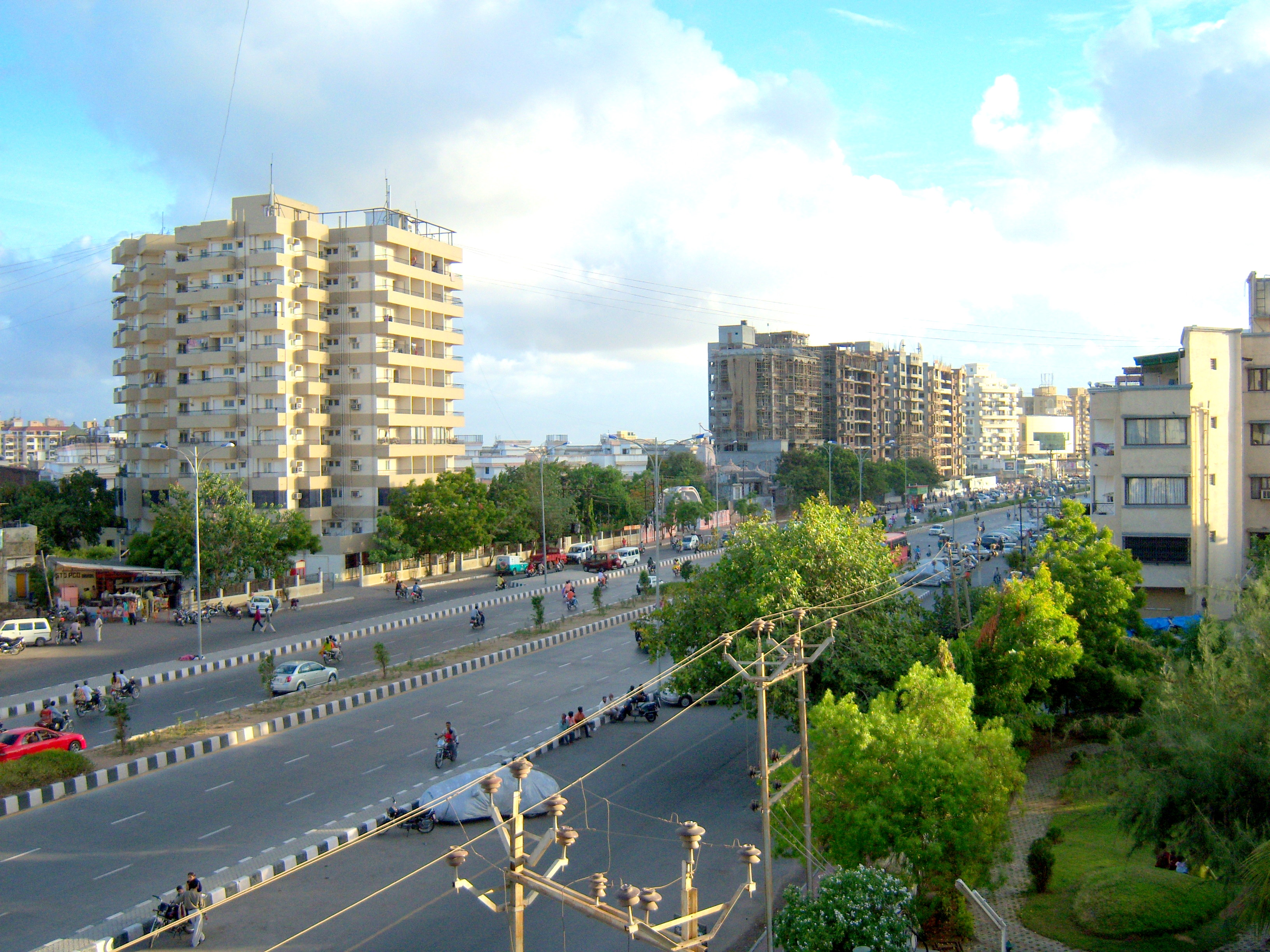 GauravPath1